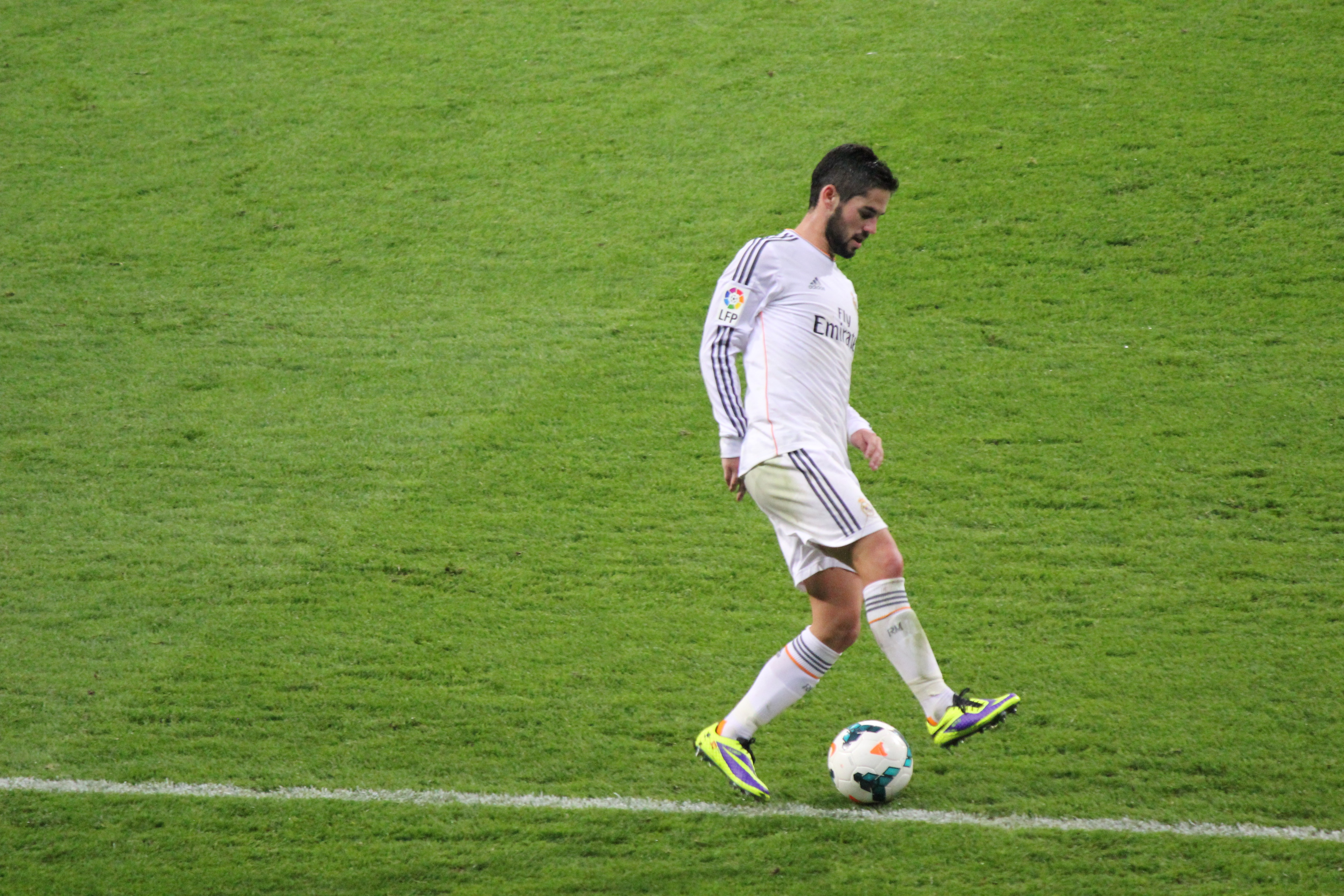 Isco playing for Real Madrid against Atlético Madrid on 28 September 2012 at a home game for Real Madrid.